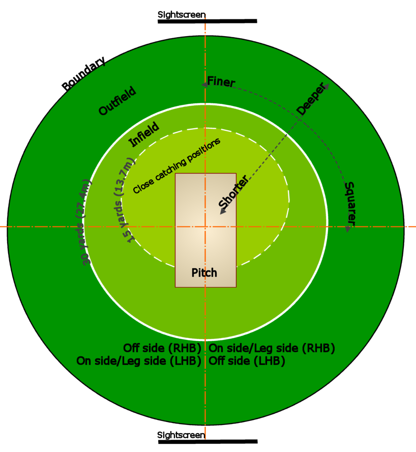 The cricket field divisions The cricket field consists of a large circular or oval-shaped grassy ground. There are no fixed dimensions for the field but its radius usually varies between 450 feet (137 m) and 500 feet (150 m). In most stadiums, a rope demarcates the perimeter of the field and is known as the boundary. The most of the action takes place in the centre of this ground, on a rectangular clay strip usually with short grass called the pitch. The pitch measures 12 feet × 74 feet (3.65 m × 22.26 m). A painted oval is made by drawing a semicircle of 30 yards (27 m) radius from the centre of each wicket and joining them with straight lines parallel to the pitch. This line, commonly known as the circle, divides the field into an infield and outfield. Two circles of radius 15 yards (13.7 m), centred on each wicket and often marked by dots, define the close-infield. The infield, outfield, and the close-infield are used to enforce fielding restrictions.